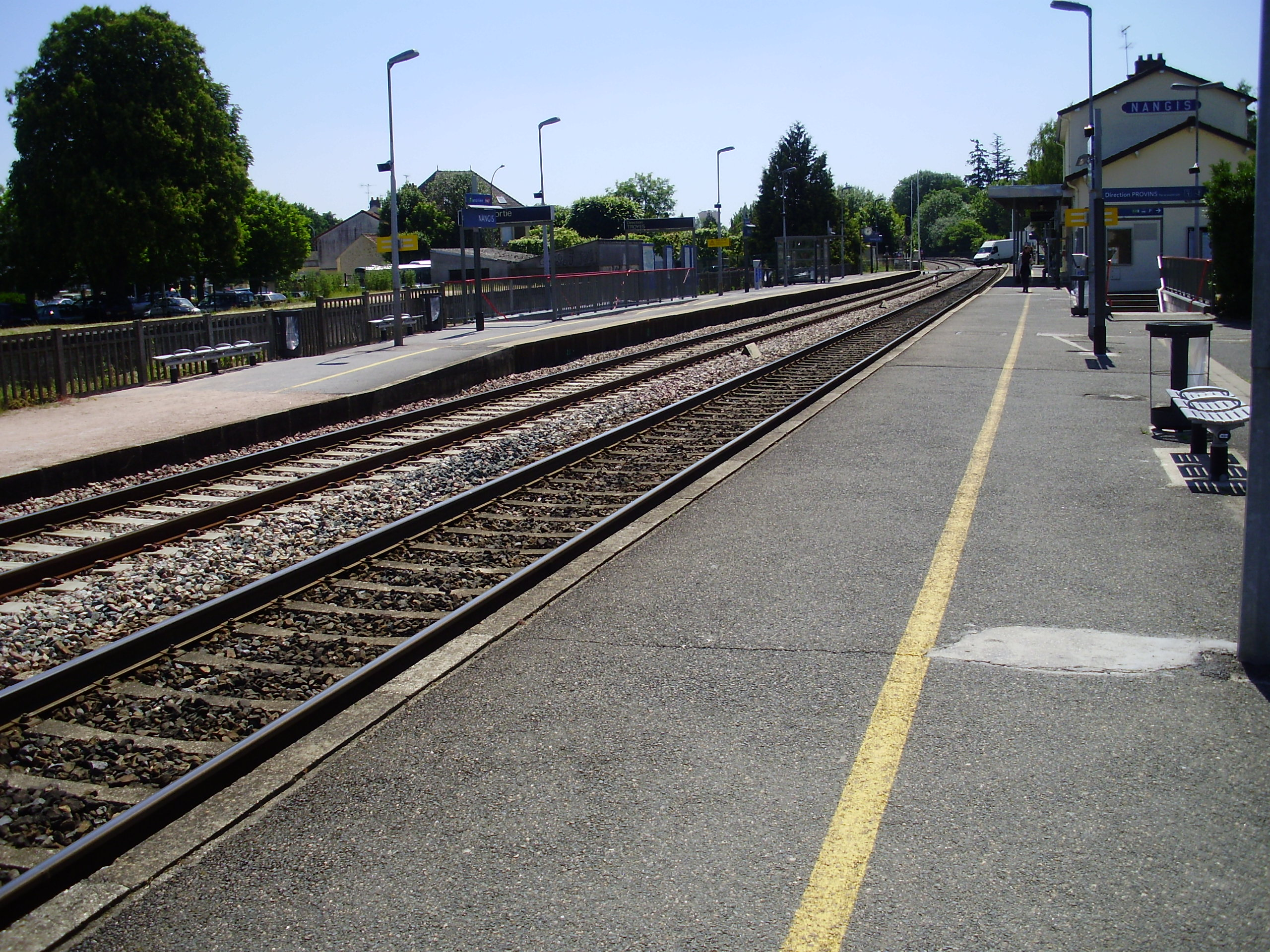 Nangis station, Seine-et-Marne, France (view towards Longueville)